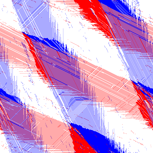 A lattice for the Biham-Middleton-Levine traffic model after 64000 iterations. The lattice is 512 by 512, with a traffic density of 37%. The red cars and blue cars take turns to move; the red ones only move rightwards, and the blue ones move downwards. Every time, all the cars of the same colour try to move one step if there is no car in front of it. The initial position before running is shown in File:Bml x 512 y 512 p 37 iterated 0.png. The graph of mobility versus time (mobility is the number of cars that can move in a particular turn) is shown at File:Bml x 512 y 512 p 37 MOBILITY.png. This was created with C++. Source code is located at user:Purpy Pupple/BML.